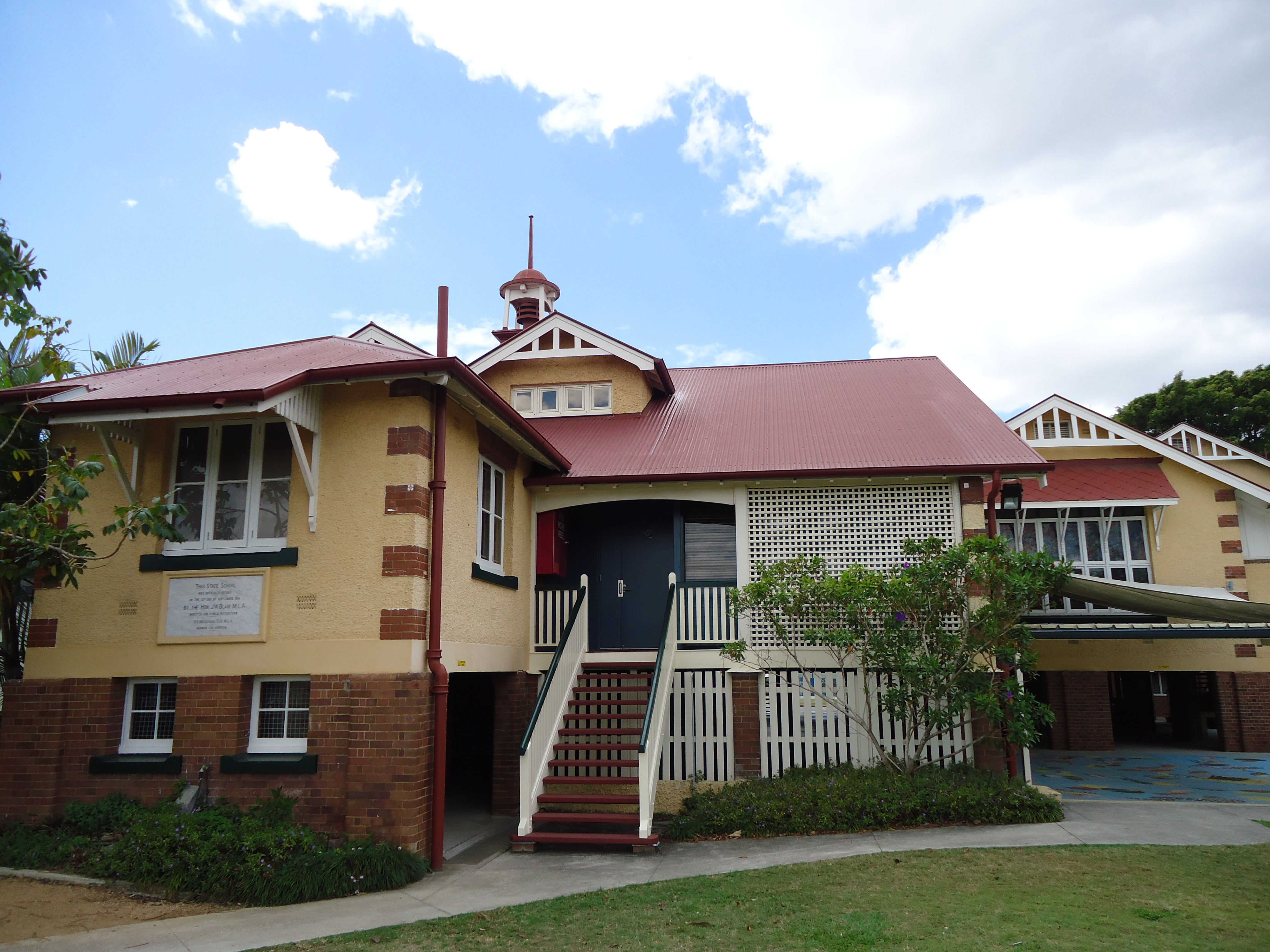 Architect: T. Pye